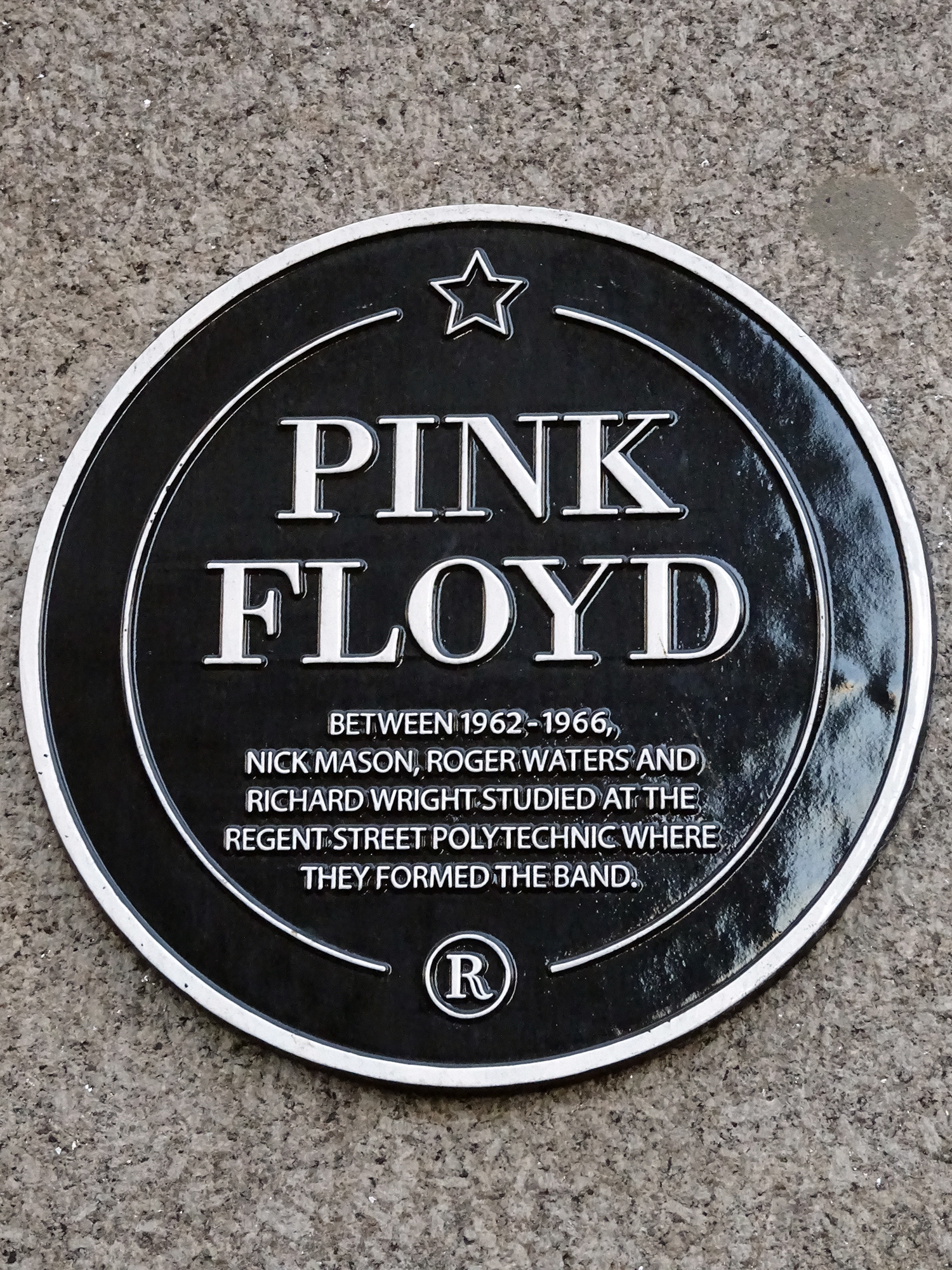 Black plaque erected on 28th May 2015 at University of Westminster, 35 Marylebone Road, London NW1 5LS